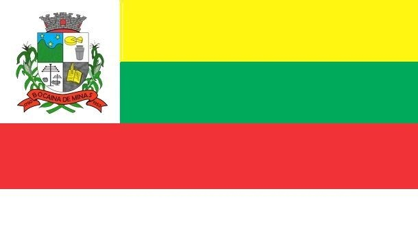 Flags of the city of Bocaina de Minas, Minas Gerais , Brazil.